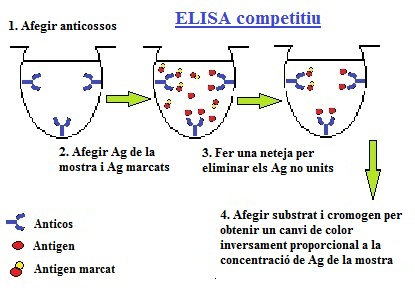 Competitive ELISA